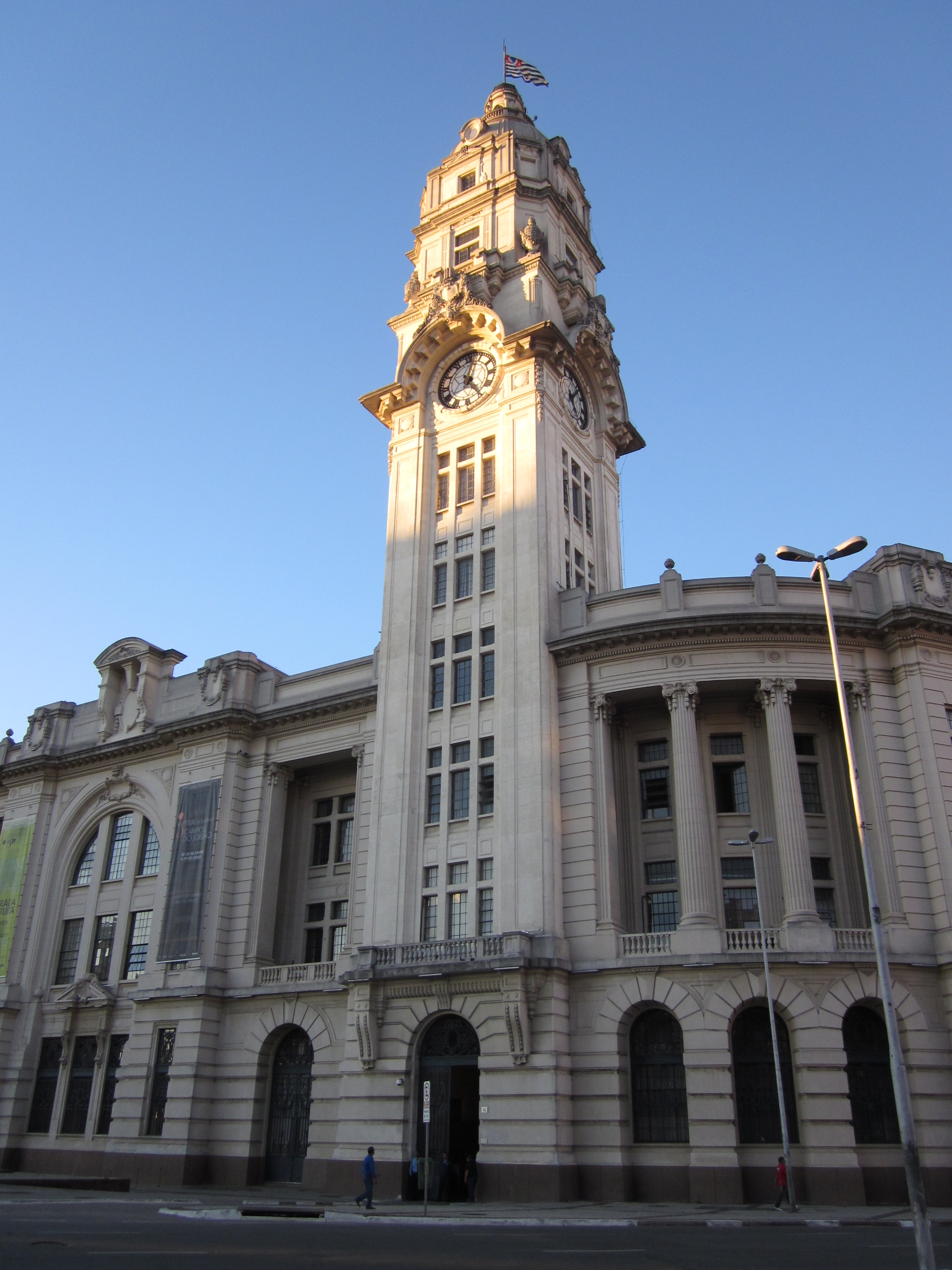 Júlio Prestes train station/Sala São Paulo opera house. Júlio Prestes train station/Sala São Paulo opera house, São Paulo.